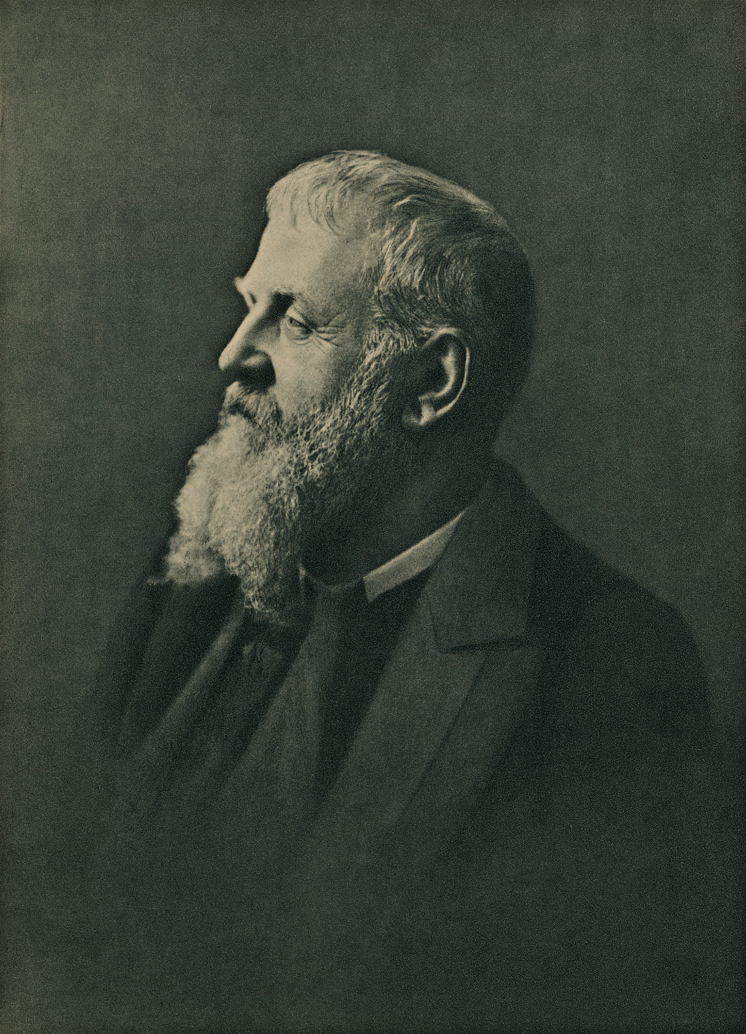 Lithograph after photograph.